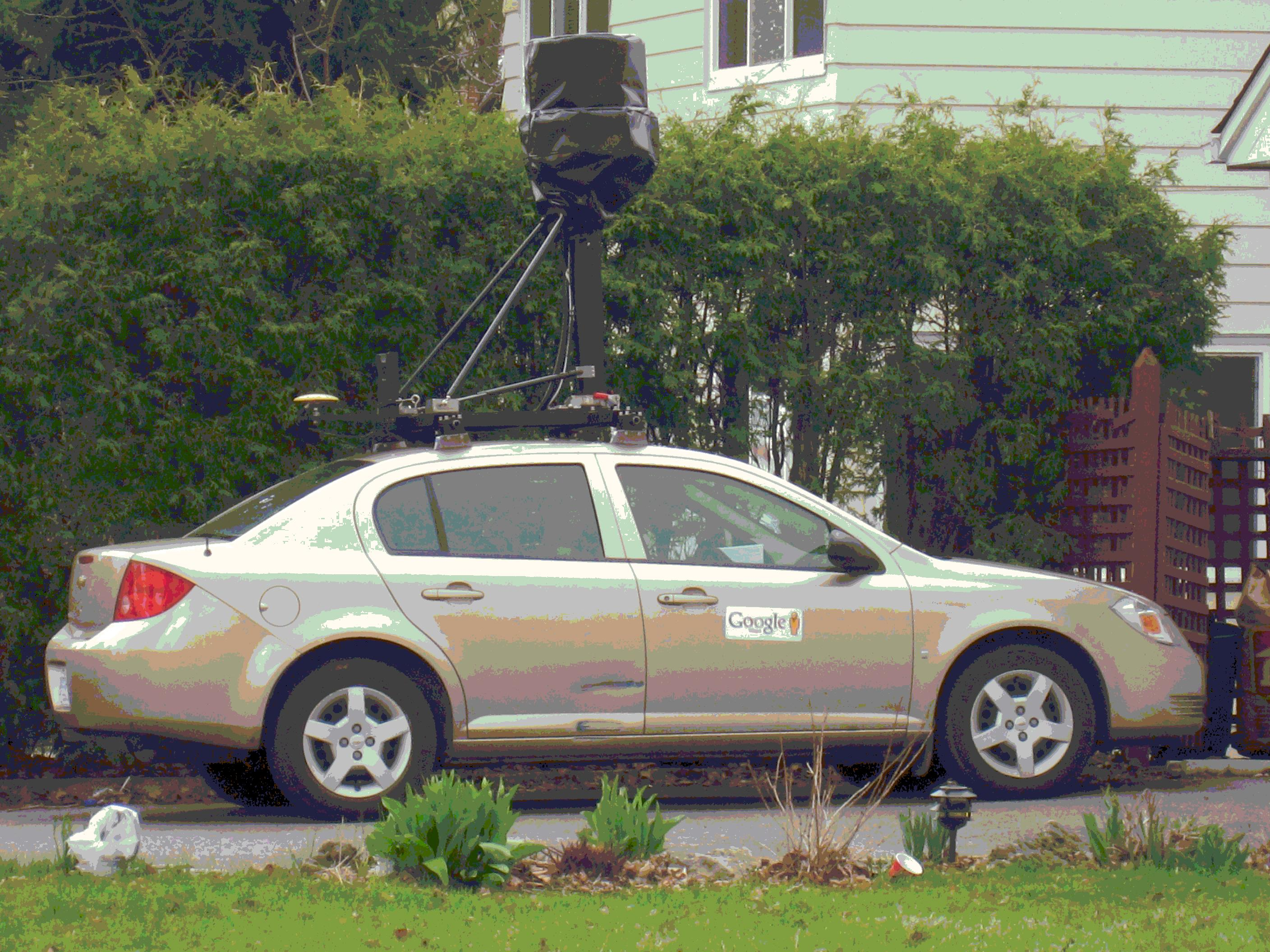 256 color photo of a Google Maps Camera Car in Streetsville, Ontario. Originally taken with a Canon SD700 IS on April 22, 2009.